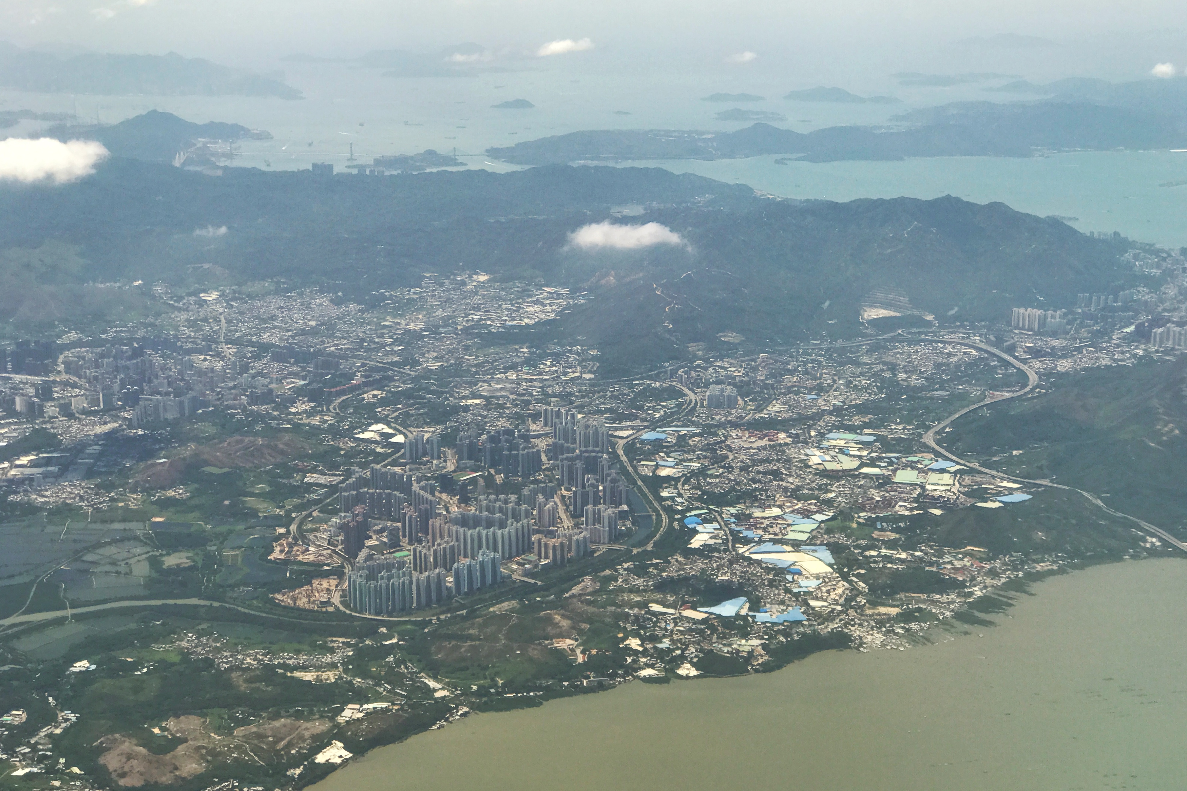 Aerial view of northwest HK